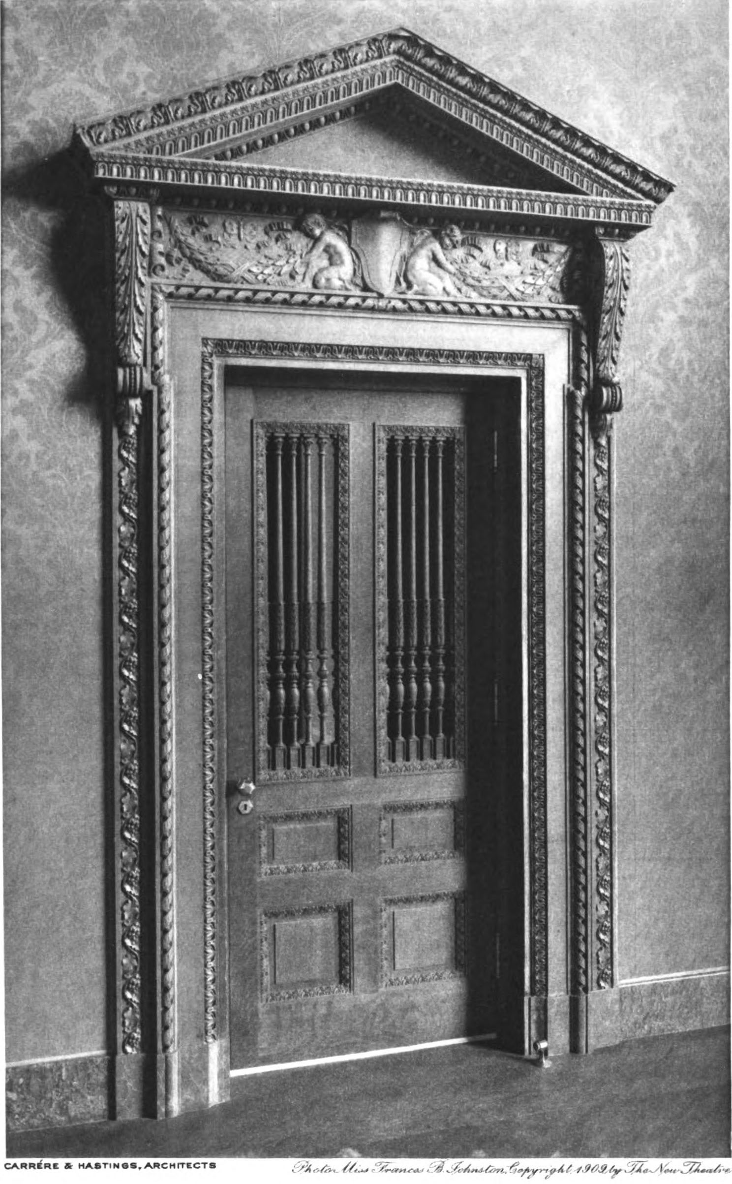 Main foyer door of the New Theatre on Central Park West in New York City.